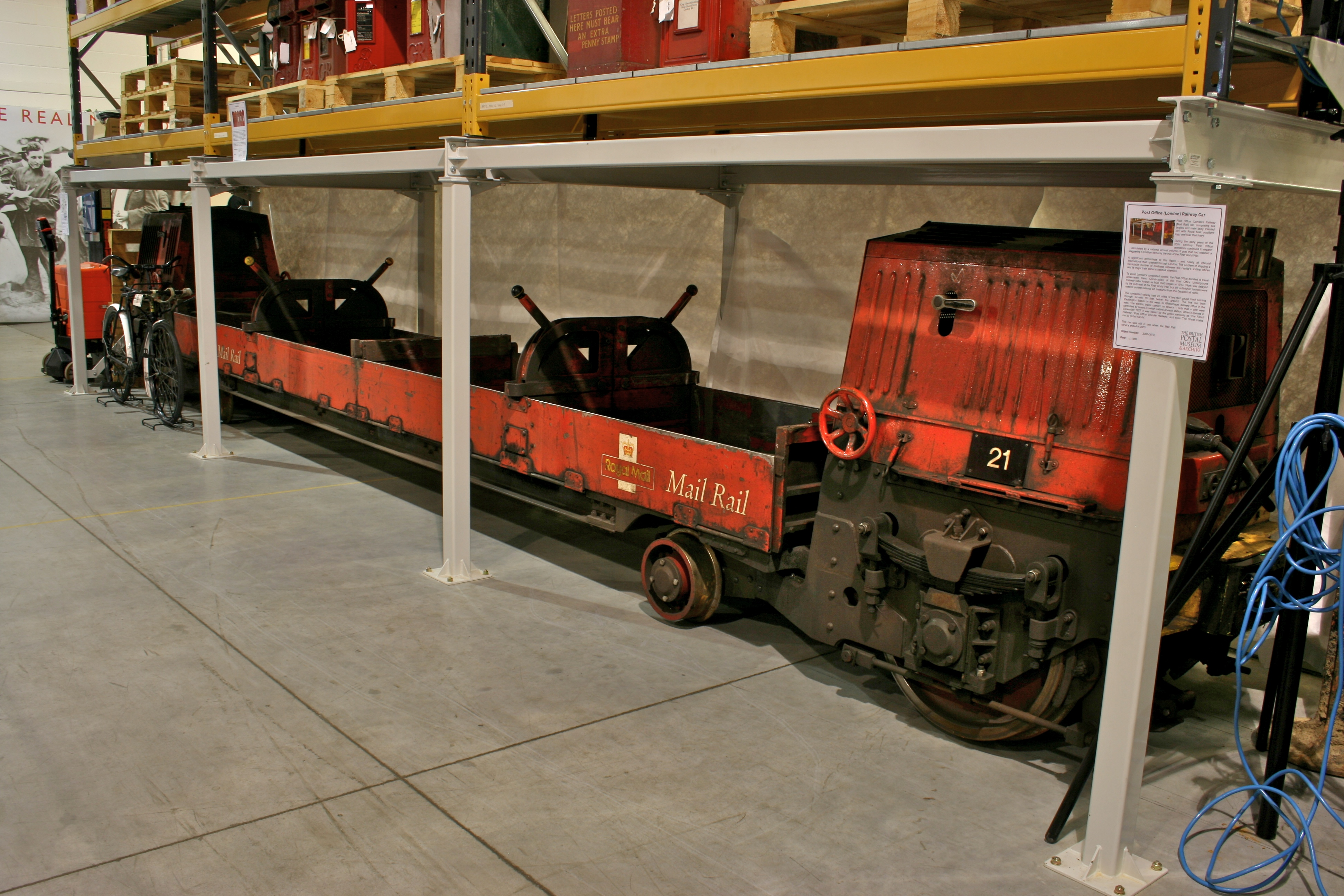 Post Office (London) Railway (Mail Rail) Car. Mail Rail was Royal Mail's small underground railway which had carried mail between sorting offices and main railway stations in central London since 1927. This car was made in 1the 1980s and was used until Mail Rail closed in 2003. It weighs around three tonnes. Collection ID 2008-0079.